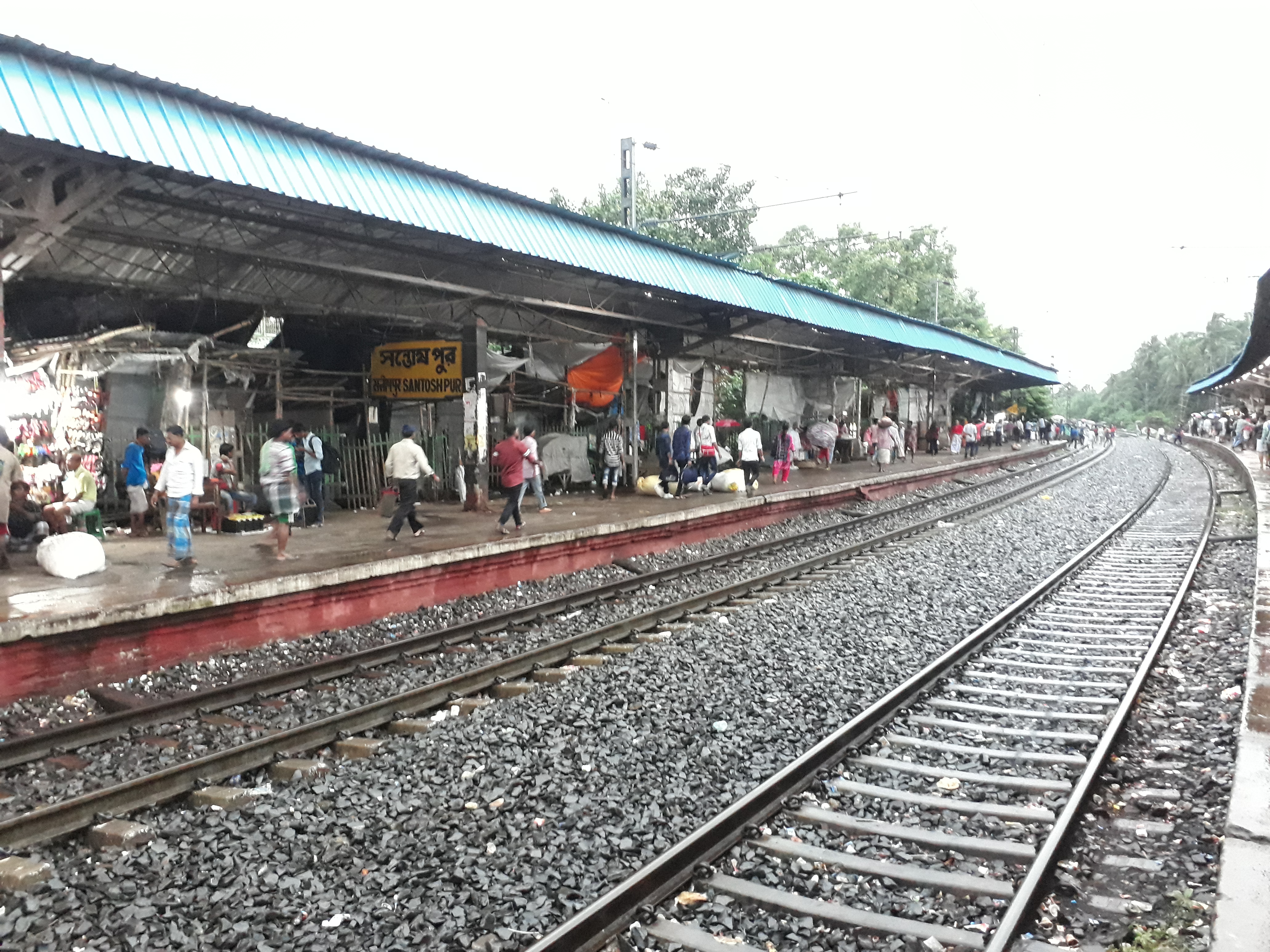 Santoshpur railway station is a Kolkata Suburban Railway Station on the Sealdah–Budge Budge line, South 24 Parganas